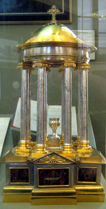 Tabernacle, Russia, 1801. Дарохранительница. Мастер А.И.Ратьков по проекту М.Ф.Казакова. Москва, 1801. Вклад Д.М. и А.М.Голицыных в храм царевича Дмитрия при больнице, открытой в 1801 г.